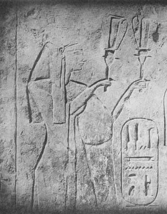 Slab with relief of queen Tiy-Merenese (and her cartouche), wife of pharaoh Sethnakht and mother of pharaoh Ramesses III. From Abydos, 20th dynasty (later reused) now in Cairo Museum (JE 36339).